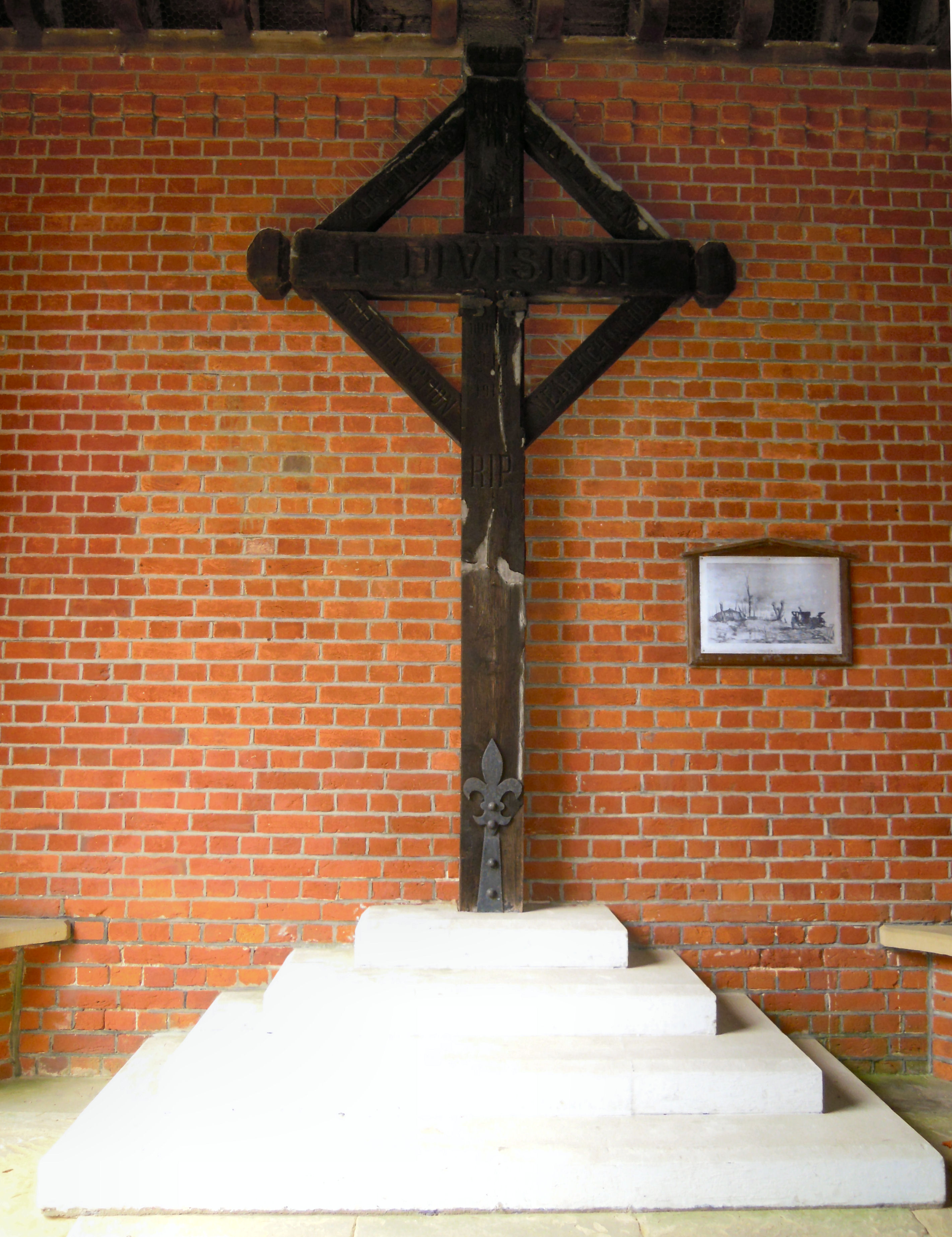 The Somme Cross at the Royal Garrison Church in Aldershot in Hampshire